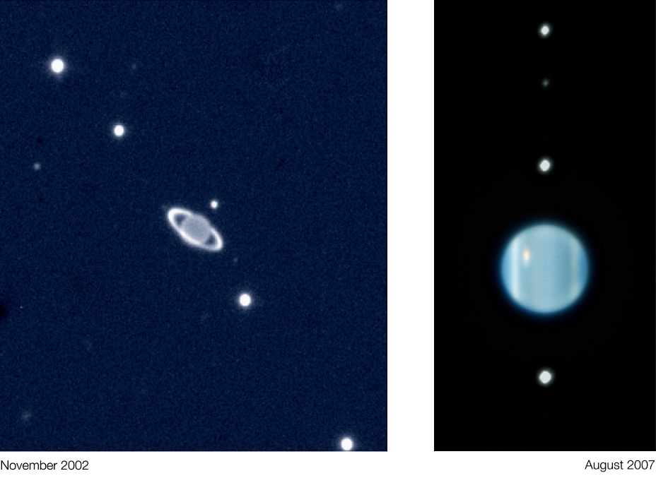 The Uranus system seen in November 2002 and in August 2007 when the rings appeared edge-on and are therefore not so visible anymore. The image of 2002 was taken with ISAAC on the VLT while the one of 2007 was taken with NACO and made use of adaptive optics. This explains why the 2007 image is much more detailed.